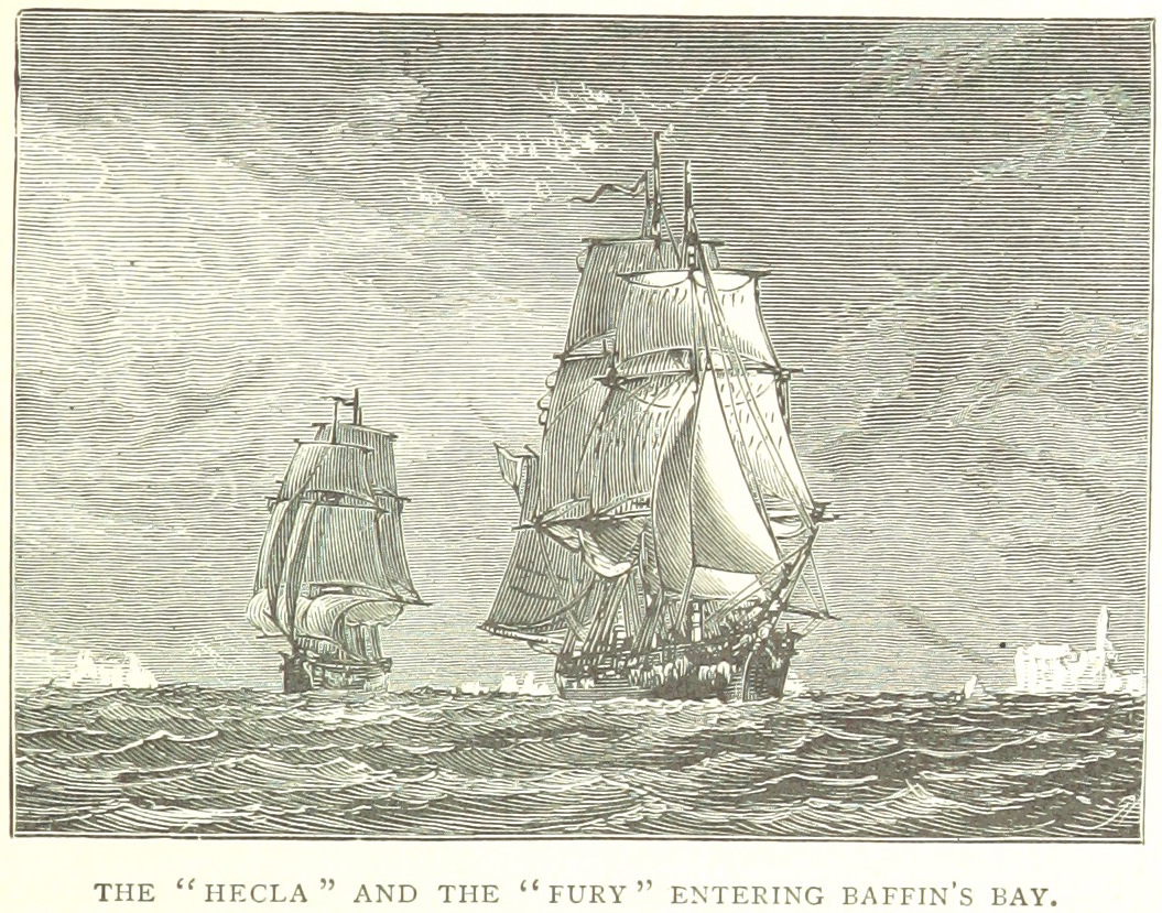 The former bomb vessels HMS Hecla and HMS Fury enter Baffin's Bay during one of William Parry's expeditions to the Arctic. Fury would be lost on this expedition.